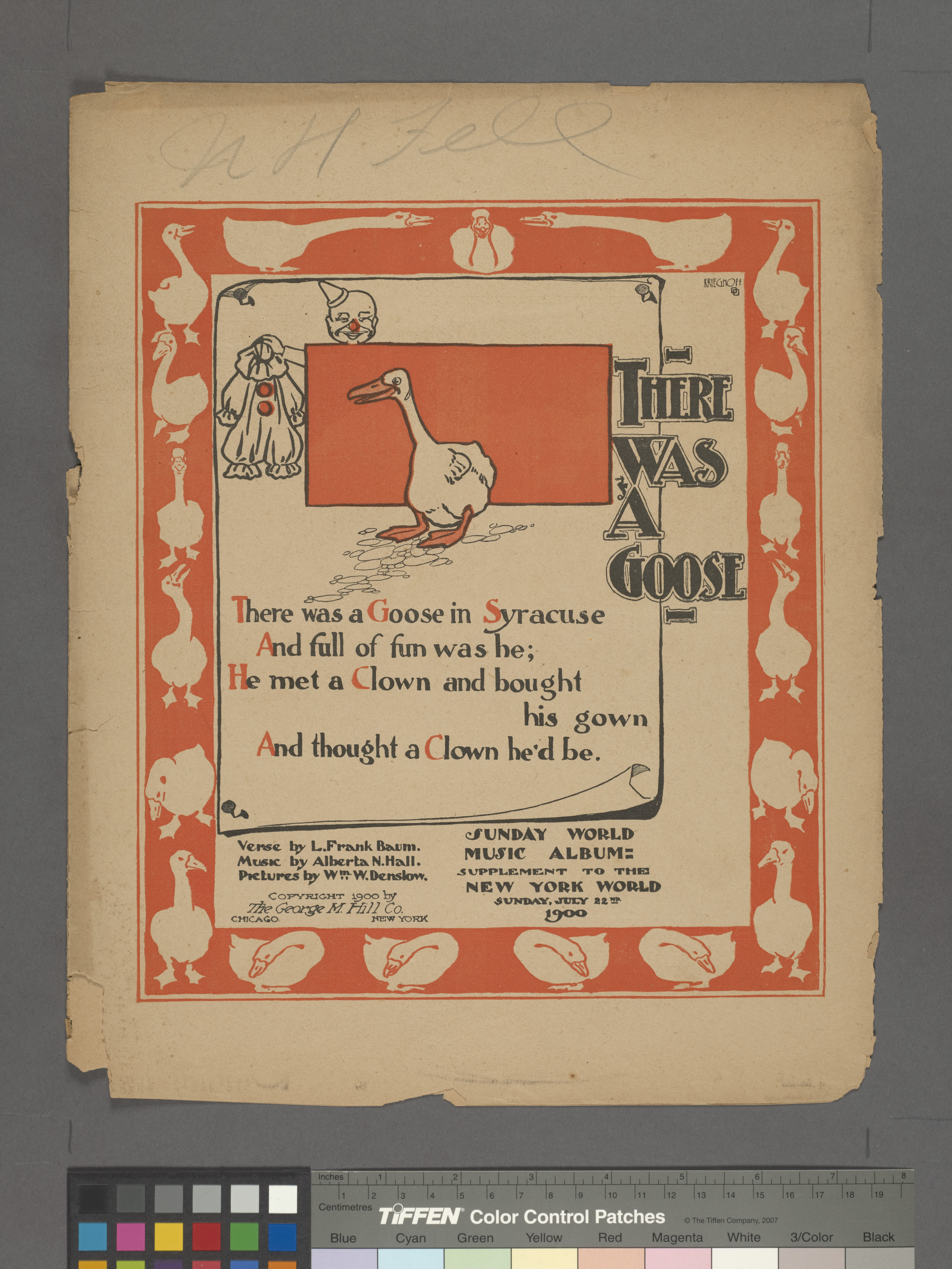 Supplement to the New York World. Sunday, July 22, 1900. On cover: Goose; clown. Statement of responsibility: words by L. Frank Baum; music by Alberta N. Hall.